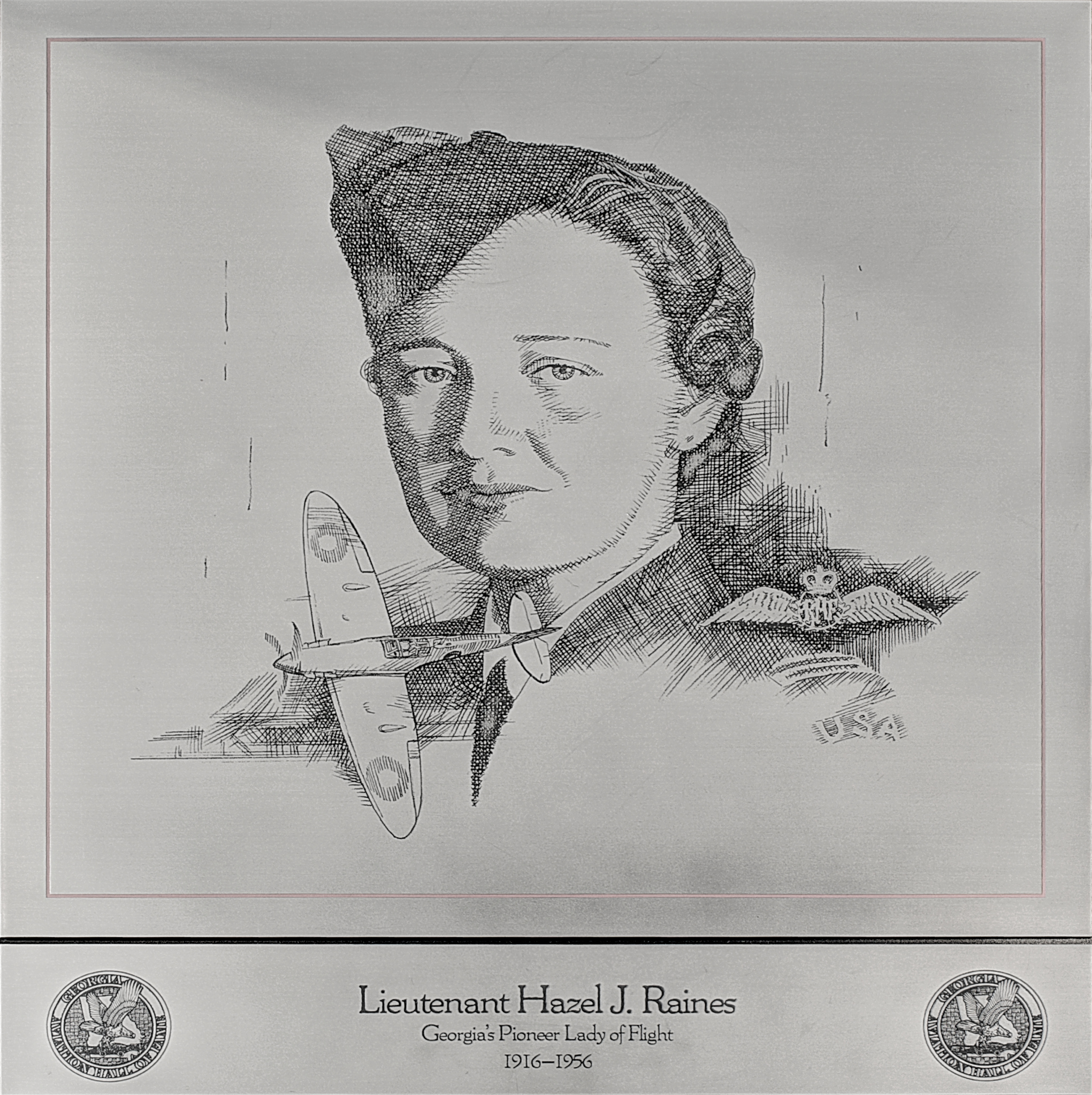 Lt. Hazel J. Raines (1916 - 1956)